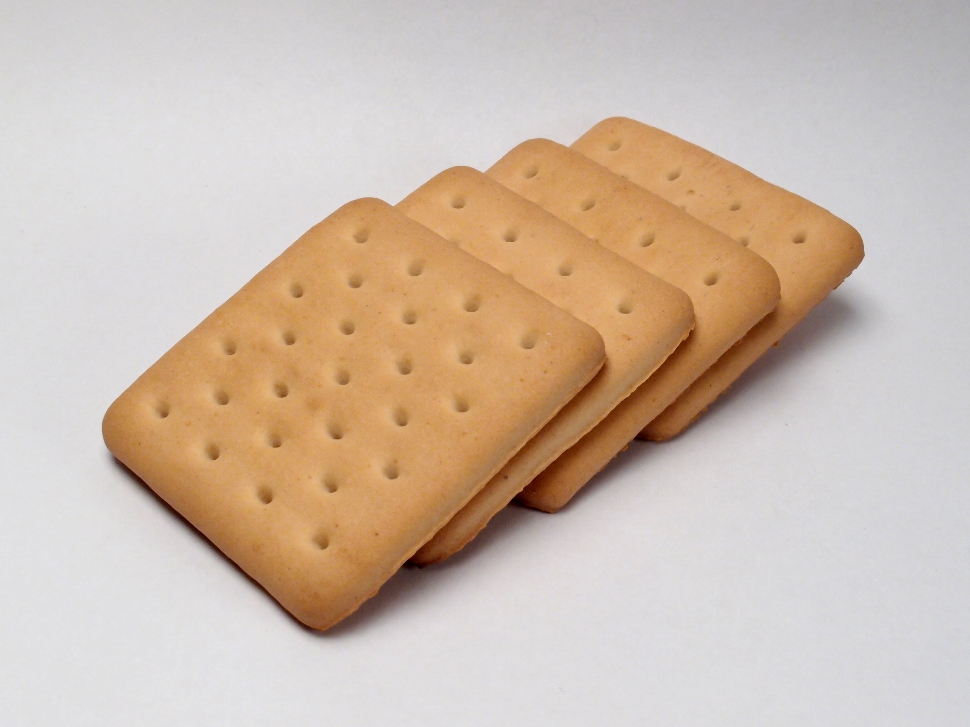 Hardtack. This is Italian-made hardtack, sold on the German market as a trekking supply under the “Trek'n Eat” brand.